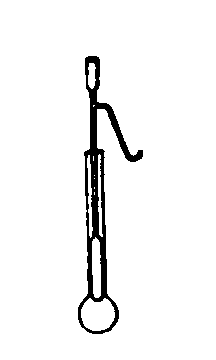 Victor Meyer apparatus